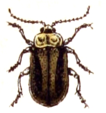 Galerucella tenella, from Calwer's Käferbuch, Table 43, Picture 4. Taxonomy was updated to 2008, using mostly the sites Fauna Europaea and BioLib. Please contact Sarefo if the determination is wrong!